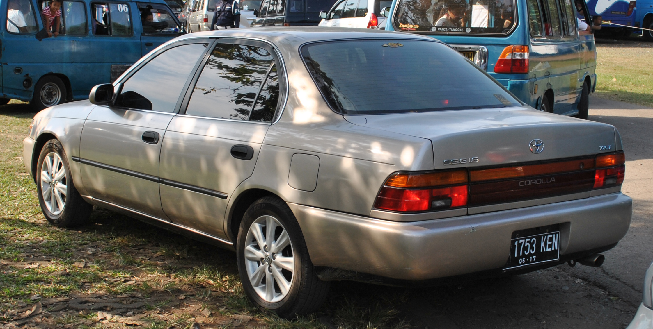 Pre-facelift Toyota Great Corolla (1.6 SE-G) in Mekarsari Tourism Park, Jonggol, West Java.